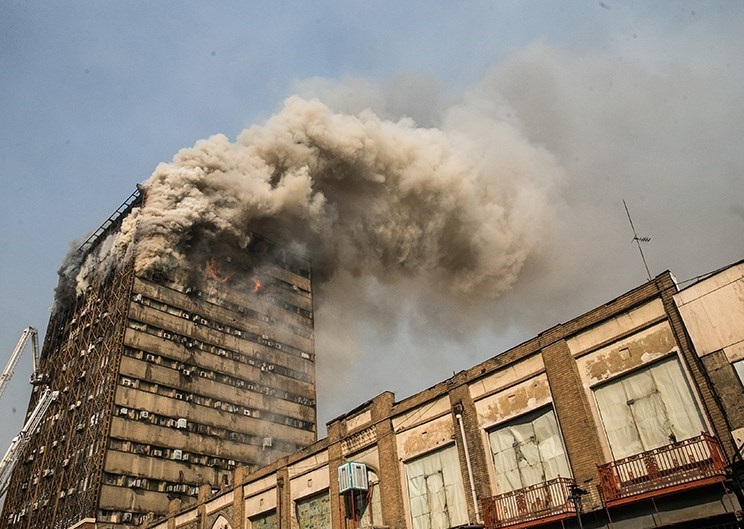 Plasco Building fire in Tehran